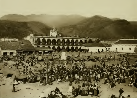 Picture of Plaza Mayor and Ayuntamiento of Antigua Guatemala in 1898